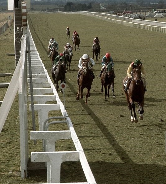 Nijinsky & Liam Ward winning the Gladness Stakes at the Curragh from Deep Run and Prince Tenderfoot